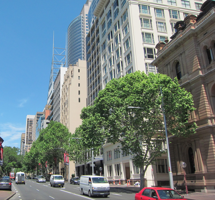 Macquarie Street, 2011 (cropped)